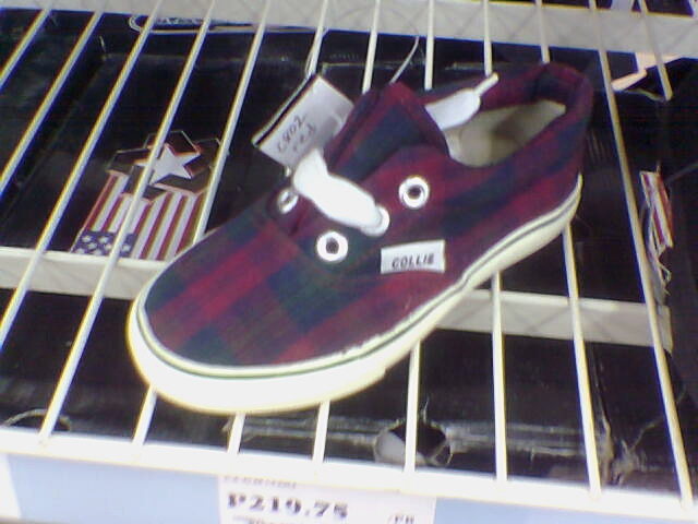 A small shoe, probably for toddlers using a CVO (Circular Vamp Oxford) design.